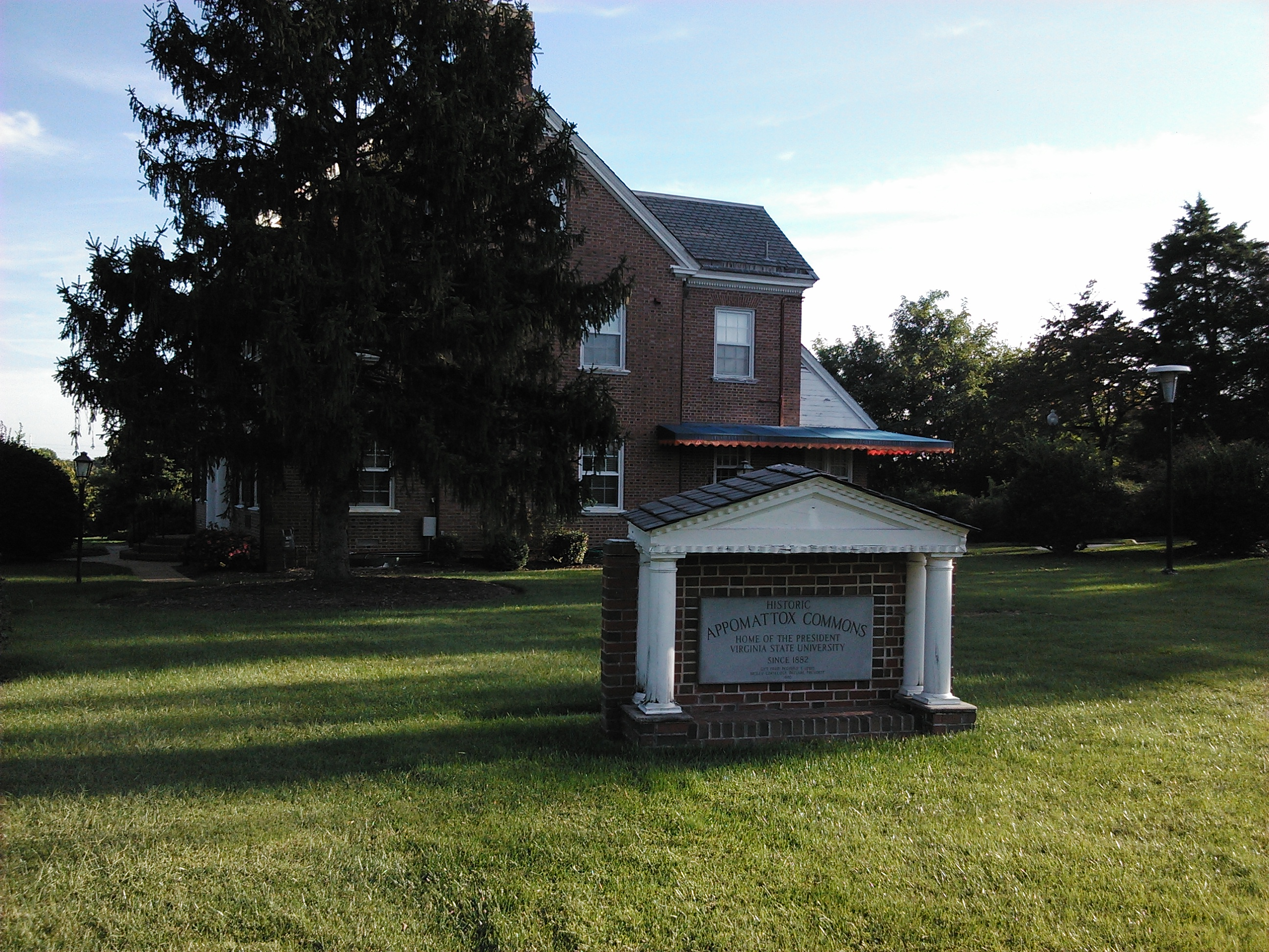 VSU President's House overlooking Appomattox River